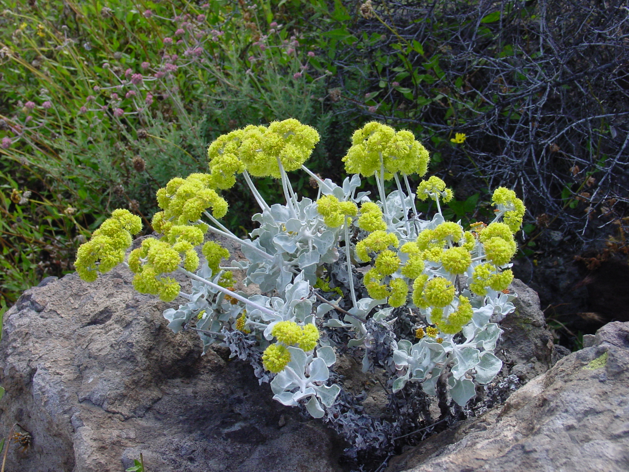 Eriogonum crocatum Photograph by Noah Elhardt, 05/05/05